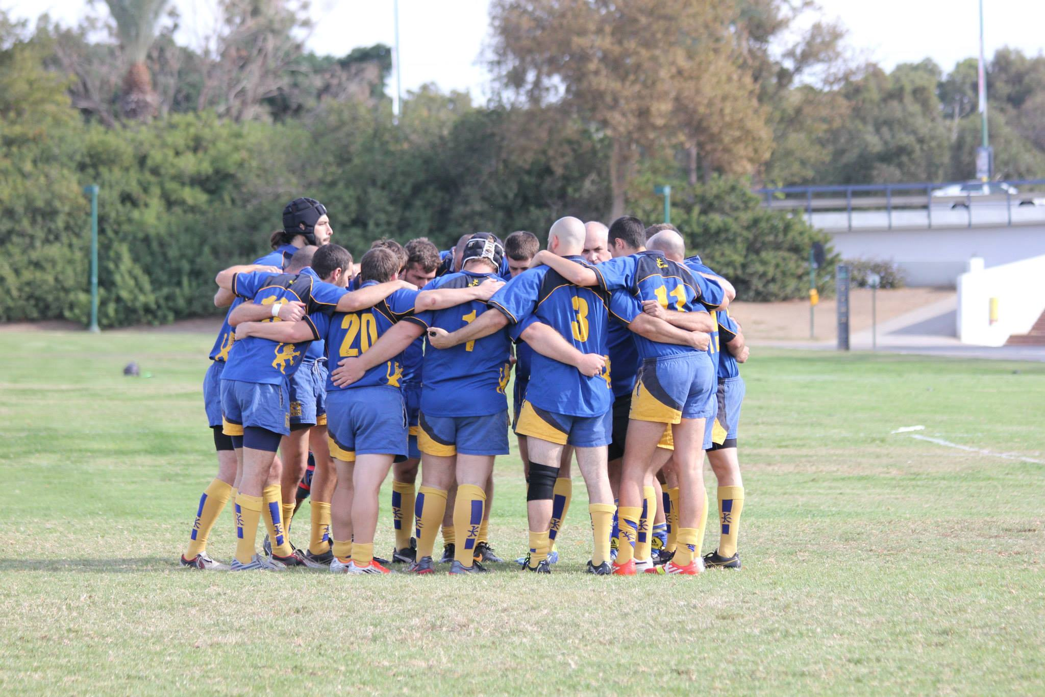 Circle